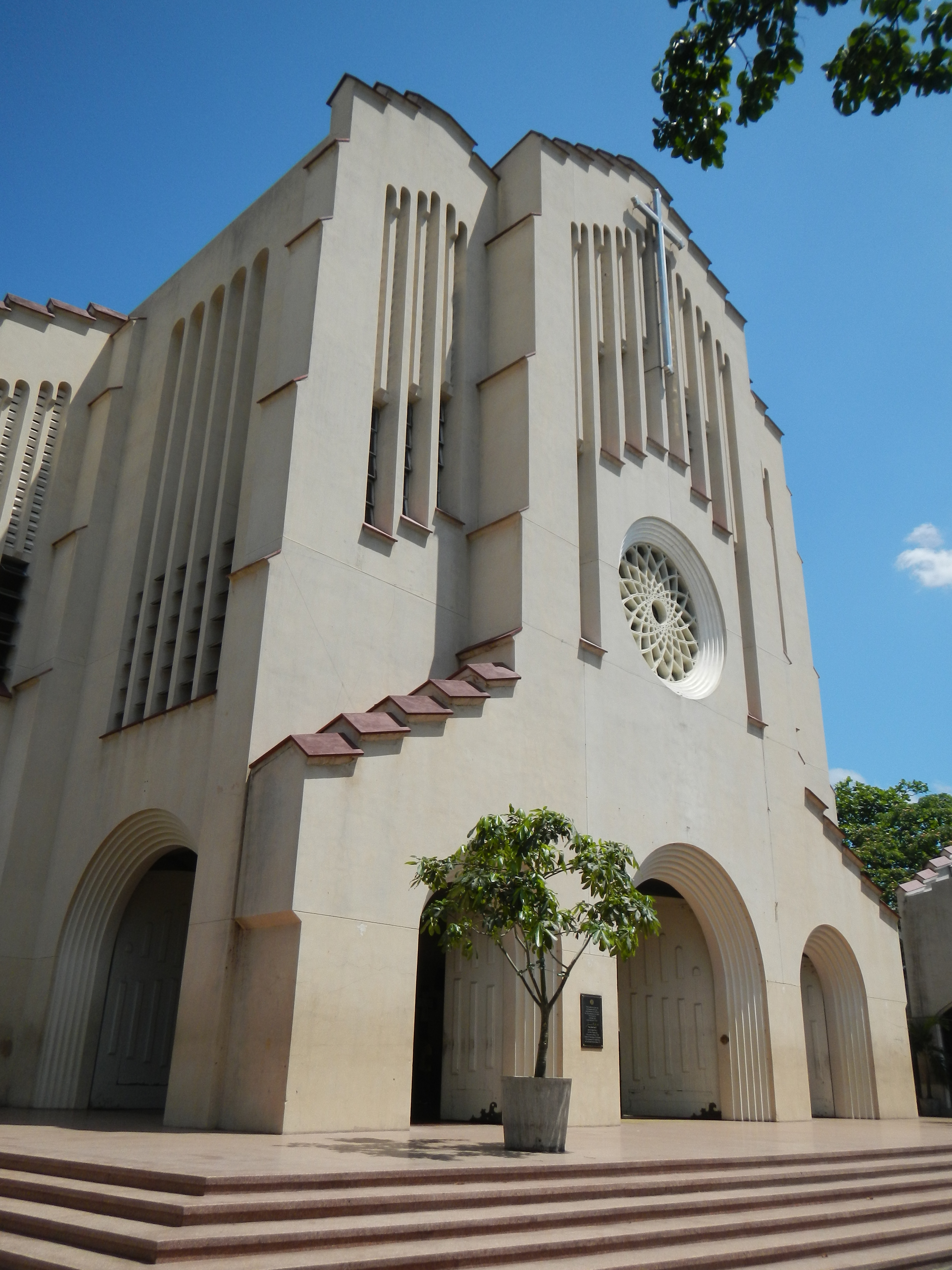 National Shrine of Our Mother of Perpetual Help[1][2] Coordinates: 14°31'52"N 120°59'42"E The National Shrine of Our Mother of Perpetual Help[3], also called the Redemptorist Church and the Baclaran Church, is a Roman Catholic parish church under the vicariate of the parish of Santa Rita de Cascia in the Diocese of Parañaque. The edifice is on Roxas Boulevard in the barangay of Baclaran in Parañaque City, Metro Manila. It is one of the most widely known churches in Metro Manila, and devotees from many parts of the region regularly flock to the sanctuary every Wednesday in what has become known as Baclaran Day. The parish celebrates its fiesta on June 27, the feast day of Our Mother of Perpetual Help. "the most attended church in Asia" is a coveted title Baclaran church, [4][5] Redemptorists Baclaran, Paranaque City, 1700 Metro Manila[6]Architect Cesar Concio[7][8][9]